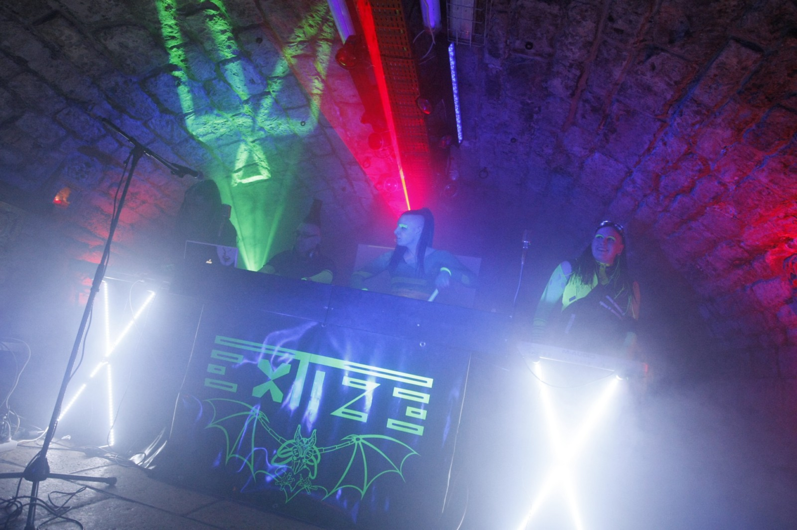 Extize live in Paris (2010).